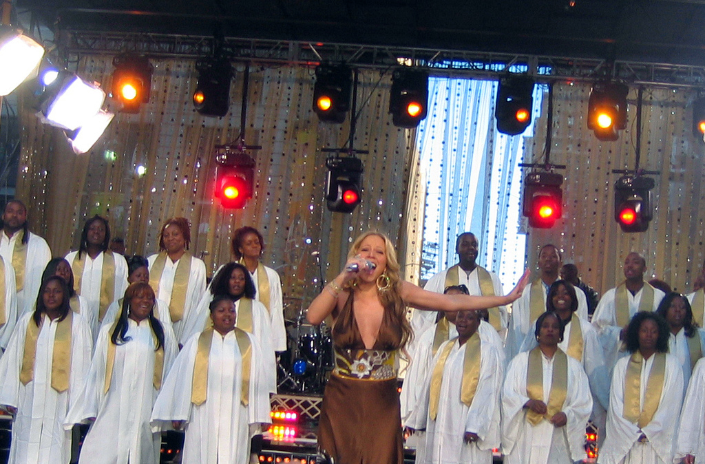 Mariah Carey performing "Fly Like a Bird" live on Good Morning America in 2005